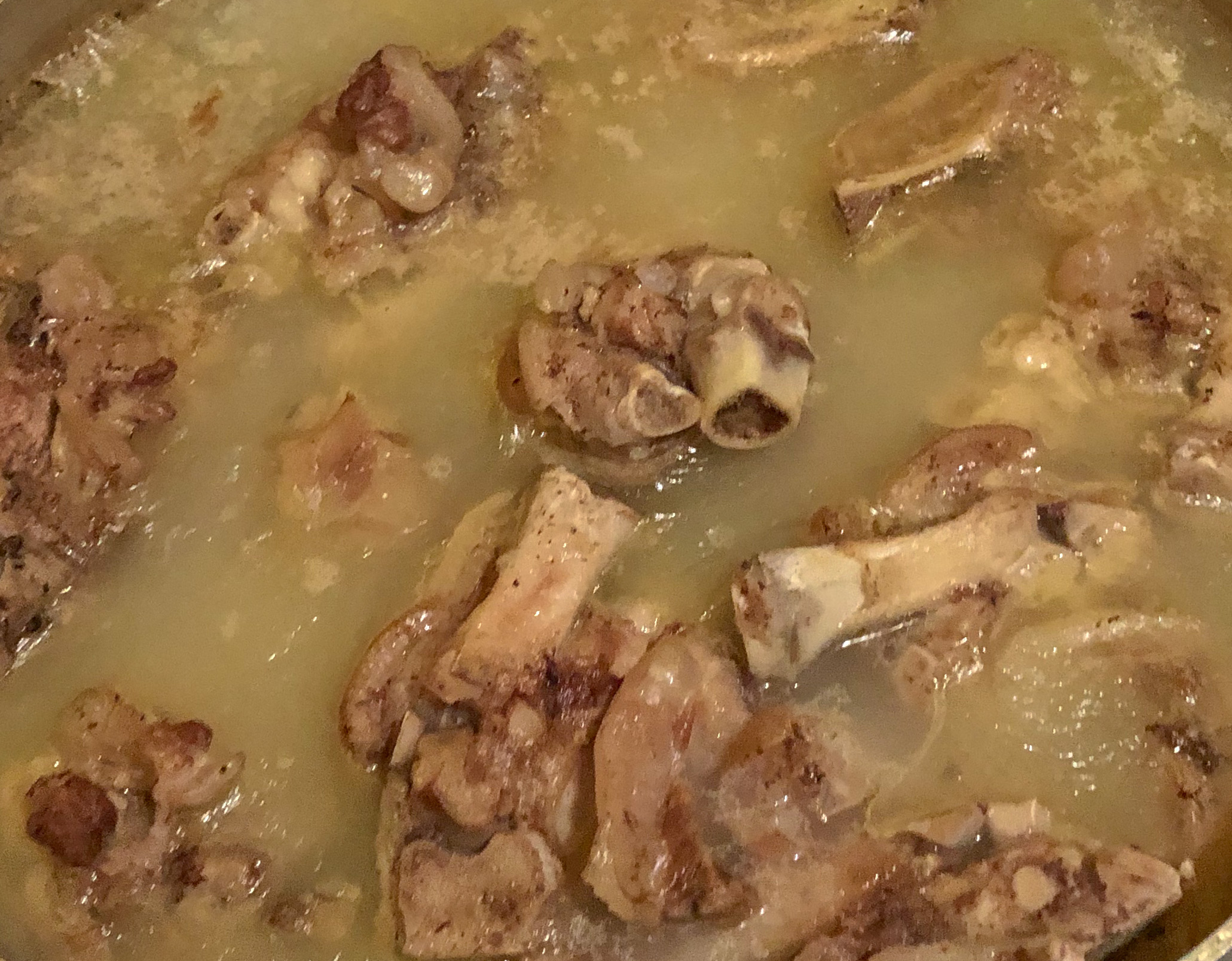 Cooking Souse, Trinidadian style (made of pork feet)